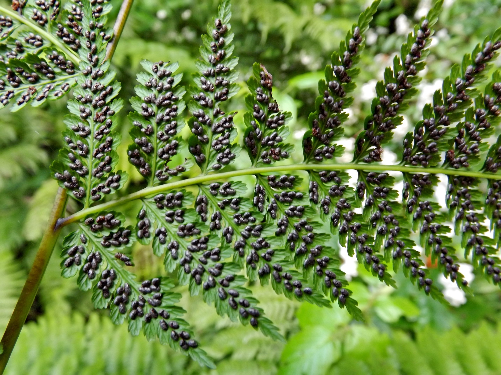 Diplazium caudatum, La Palma, Spain. Detail sori.